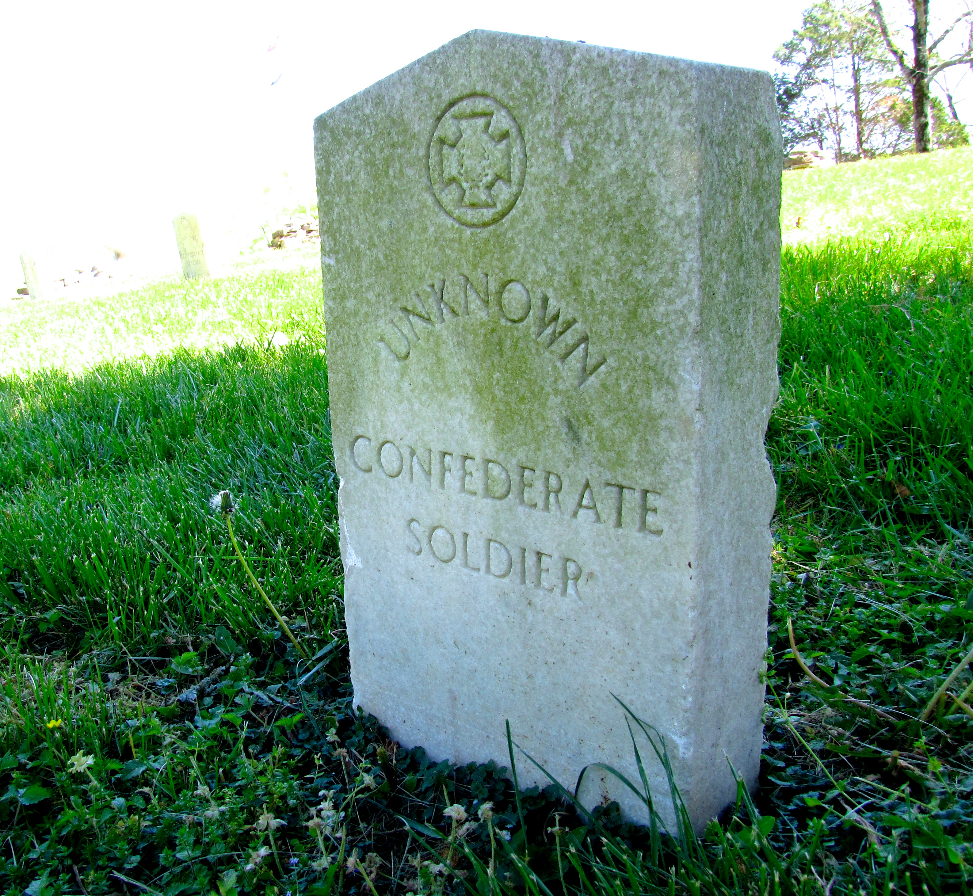 Grave of an unknown Confederate soldier at the Beech Grove Confederate Cemetery in Beechgrove, Tennessee, United States.